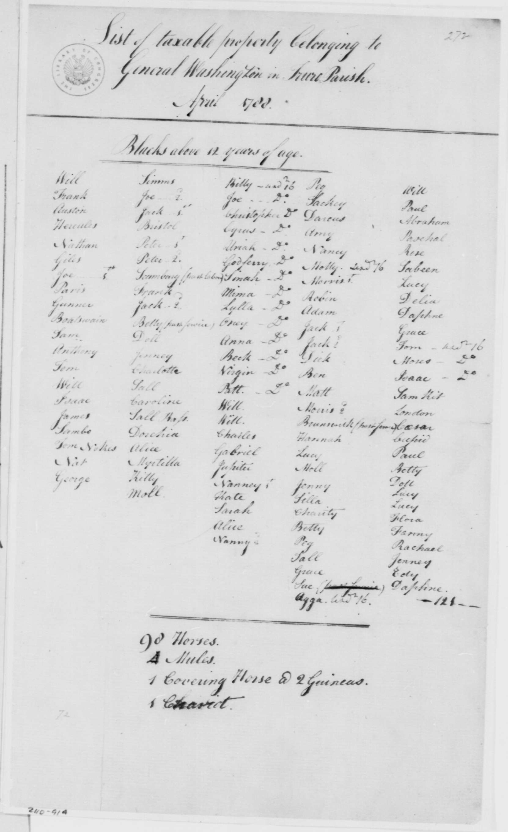 "List of taxable property belonging to General Washington in Truro Parish [Virginia], April 1788." Document then lists the names of George Washington's slaves under the heading "Blacks above 12 years of age." Other categories of taxable property follow, including 98 horses and 4 mules. Image courtesy of the George Washington Washington Papers, Series 4, General Correspondence, Library of Congress, Washington, D. C.